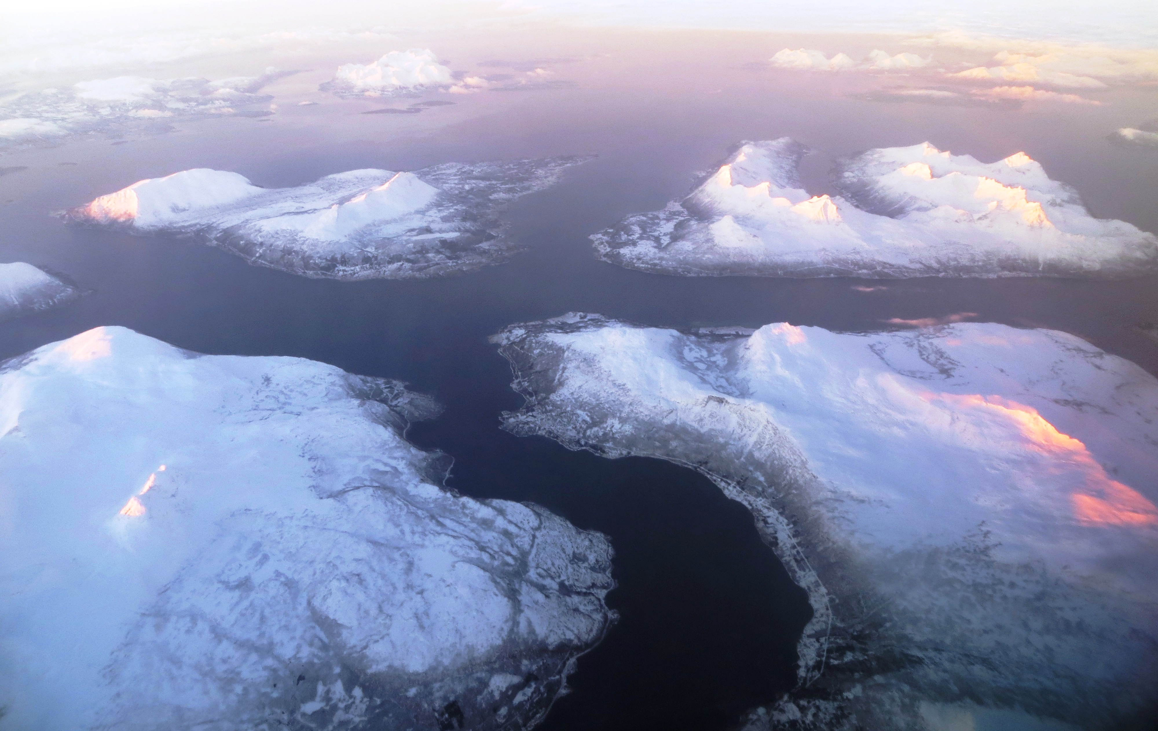 Aerial view from the east towards west, of Ibestad Municipality (islands) and Gratangen Municipality (mainland), in Troms county (Norway). The distinctive island in the fjord are named Rolla (left) and Andørja (right).